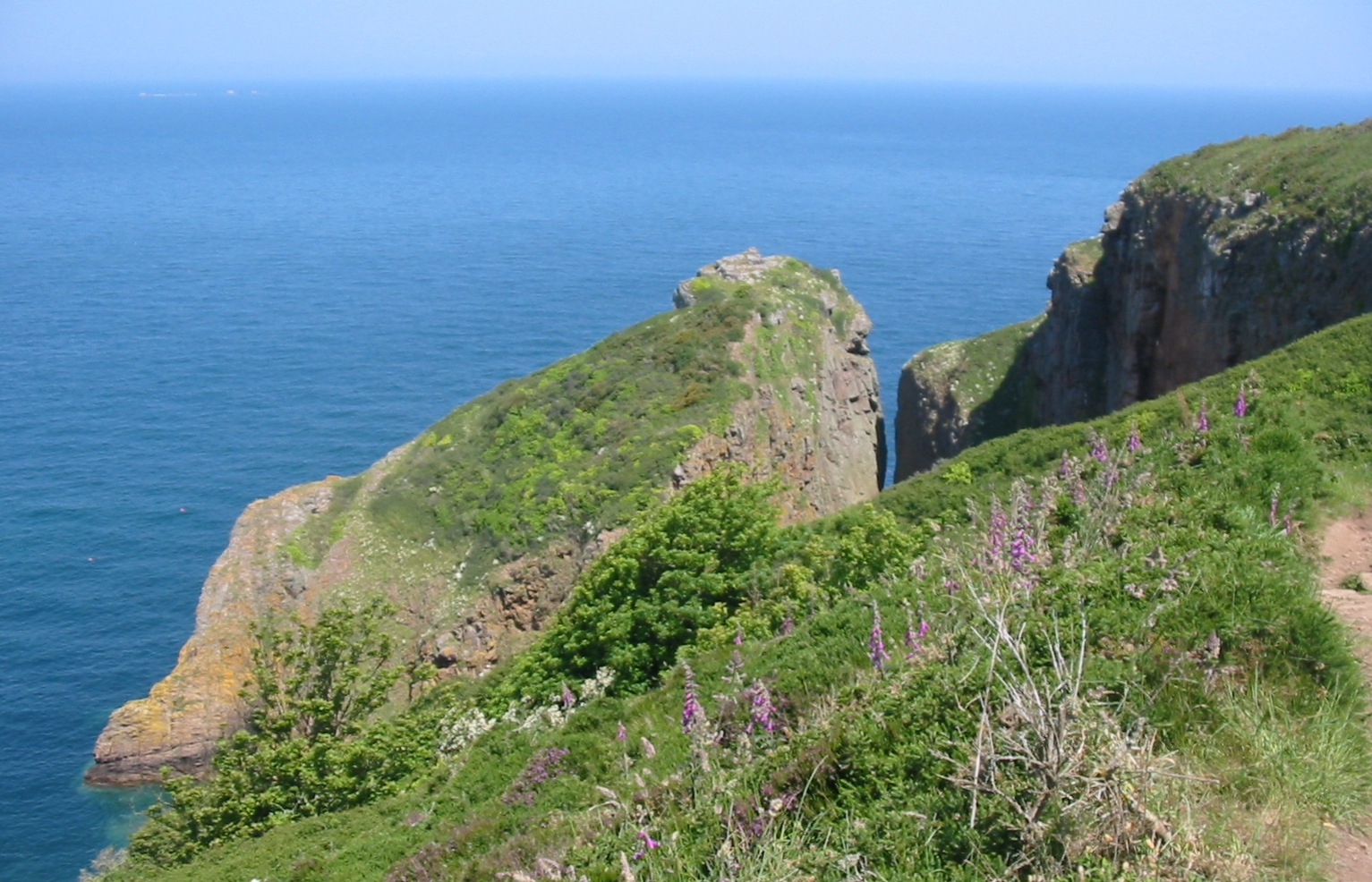 Île Agois seen from cliff path, Jersey, with Les Pièrres dé Lé in background, Sark not visible due to haze Nrf: Île Agouais, Les Pièrres dé Lé, Jèrri